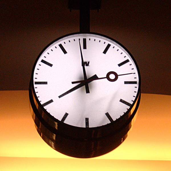 Railway station clock at Antwerpen-Centraal railway station (Antwerp, Belgium).